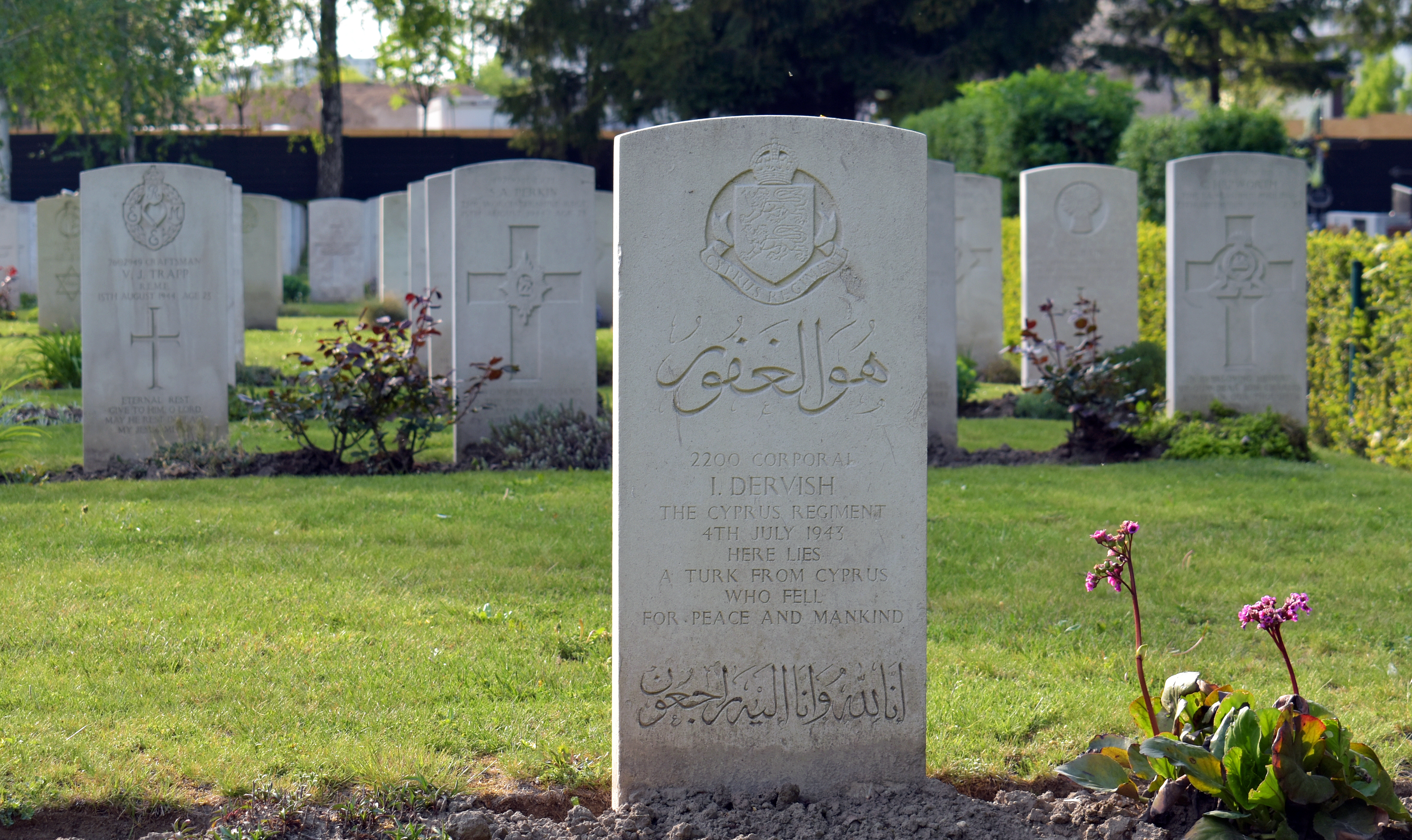 Krakow Military Cemetery, Commonwealth section WWII, tombstones, ul. Prandoty 1, Kraków, Poland